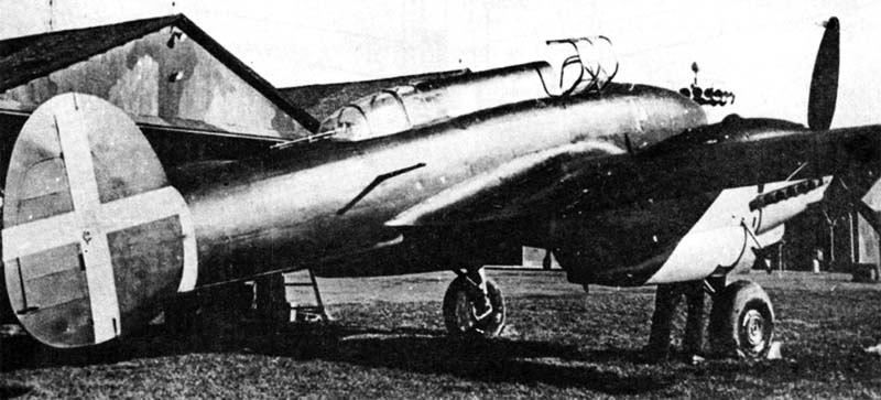 Italian IMAM Ro.58 fighter prototype